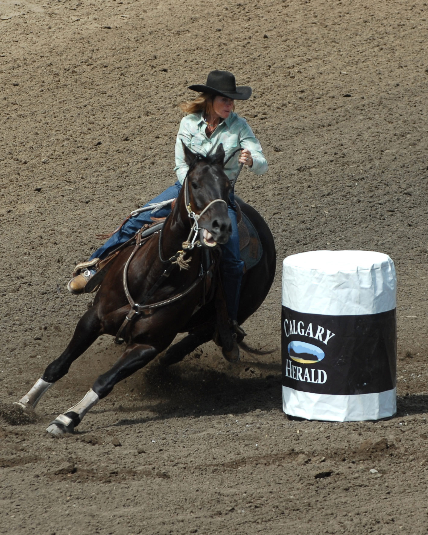 Barrel racing at the Calgary Stampede. Photo by Chuck Szmurlo taken July 10, 2007 at the Calgary Stampede with a Nikon D200 and a Nikon 70-200 f2.8 lens. Please note that the logo for the Calgary Herald has been painted over.